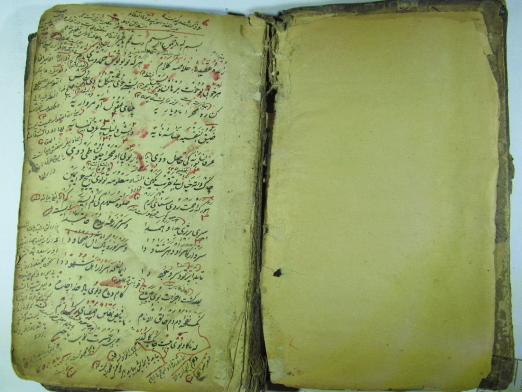 A manuscript of Aqidey Marziye from the archive of legacy committe of Vejin. This manuscript is written in 1864. .دوێنەی دەستنووسێکی عەقیدەی مەرزییەی مەولەوی کە لە ئەرشیڤی کۆمیتەی کەلەپووری ڤەژین وەرگیراوە. دەستنووسەکە لە ساڵی ١٨٦٤دا نووسراوە.